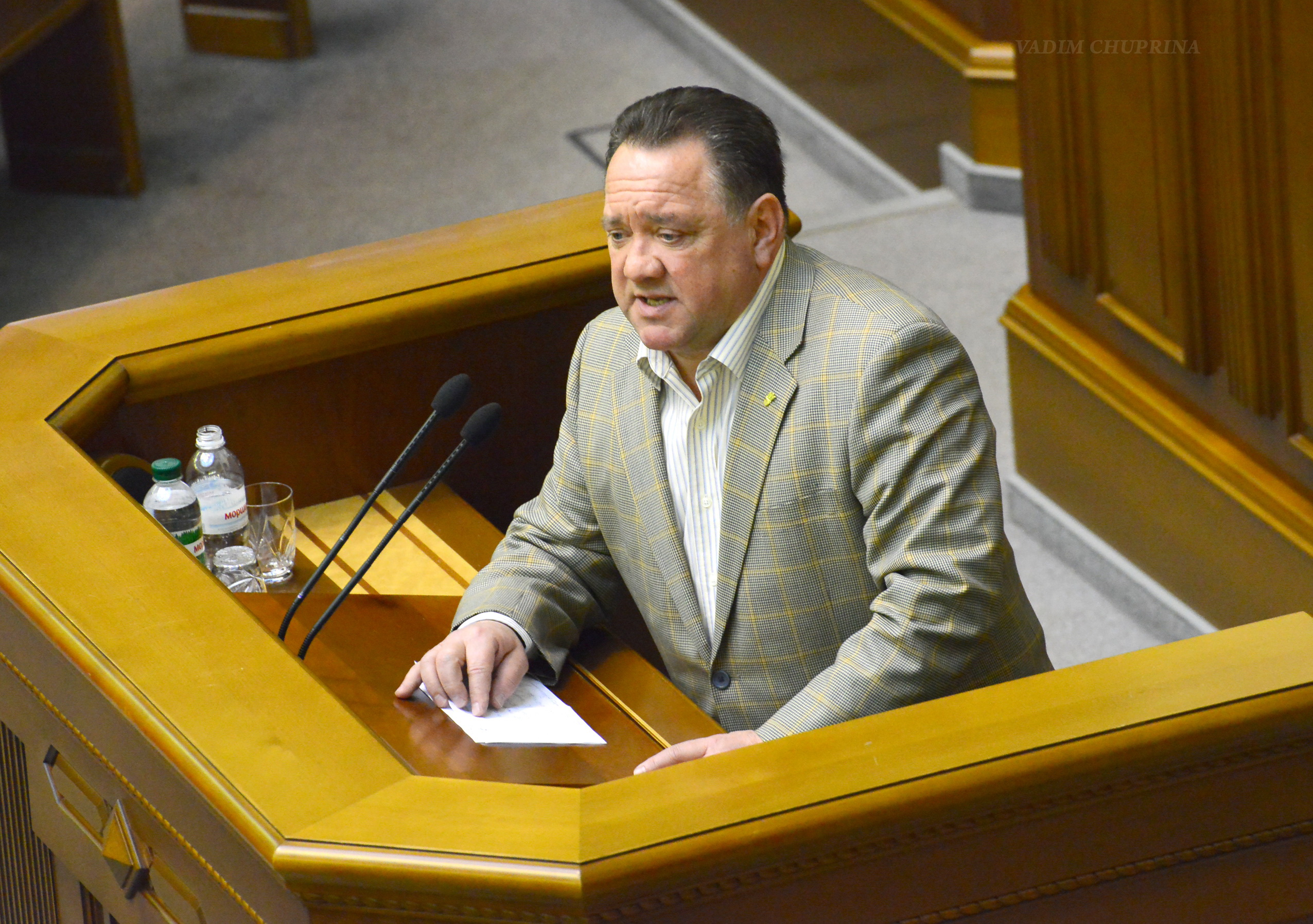 Ukrainian politicians VADIM CHUPRINA